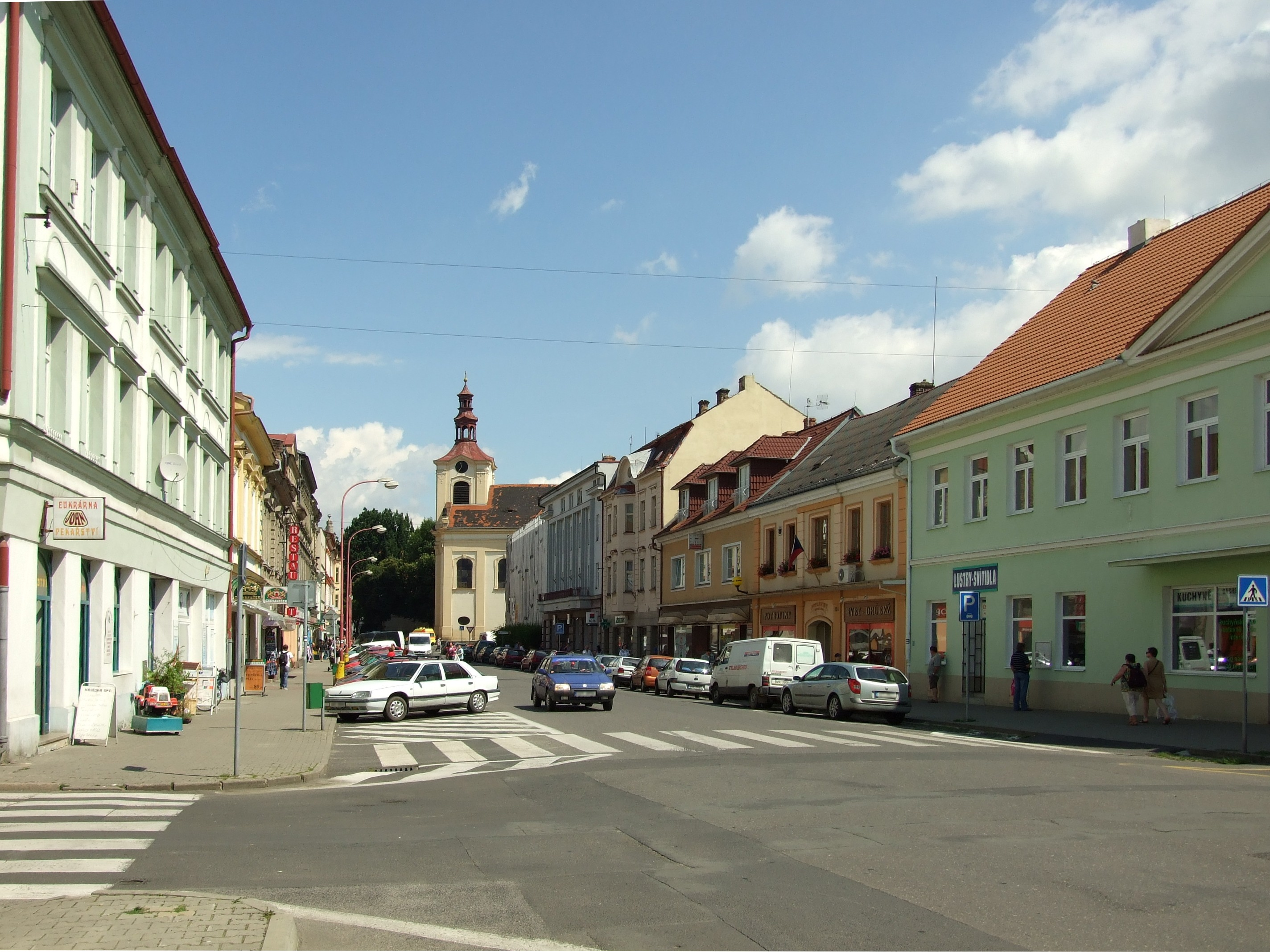 City of Lovosice, Litoměřice district, Ústí nad Labem Region, CZhelp